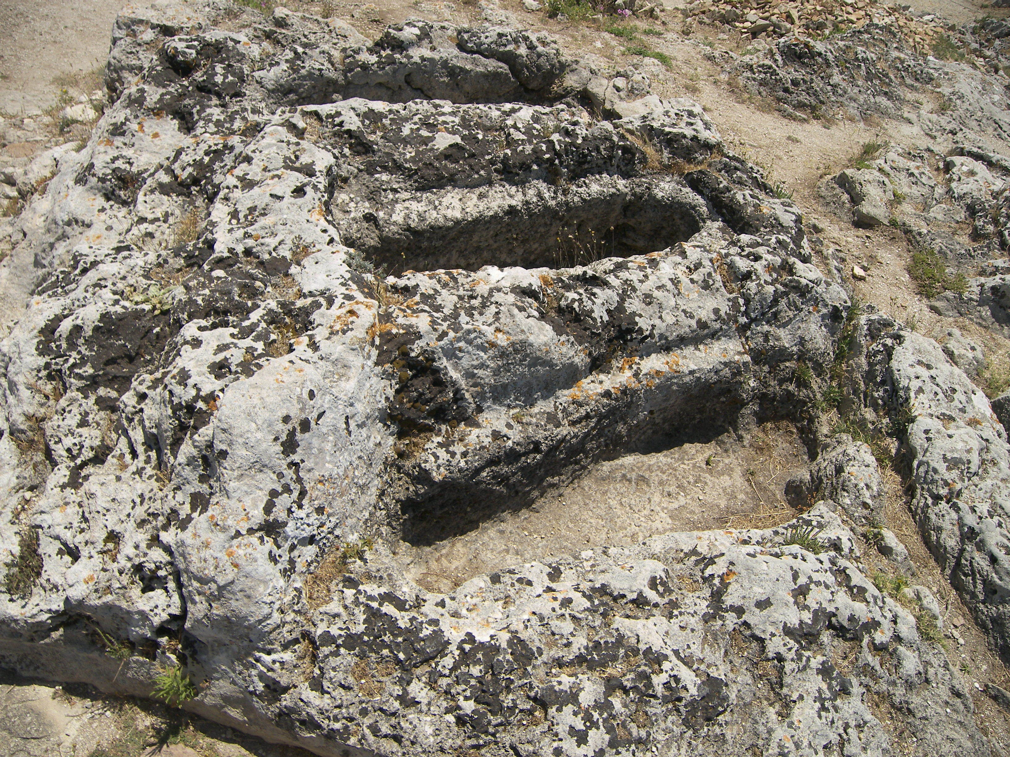 Please see filename.